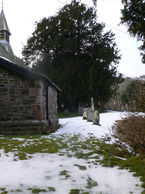 St Winnifred's Church, Gwytherin To the north of the church are four standing stones, one of which is inscribed with Latin words.